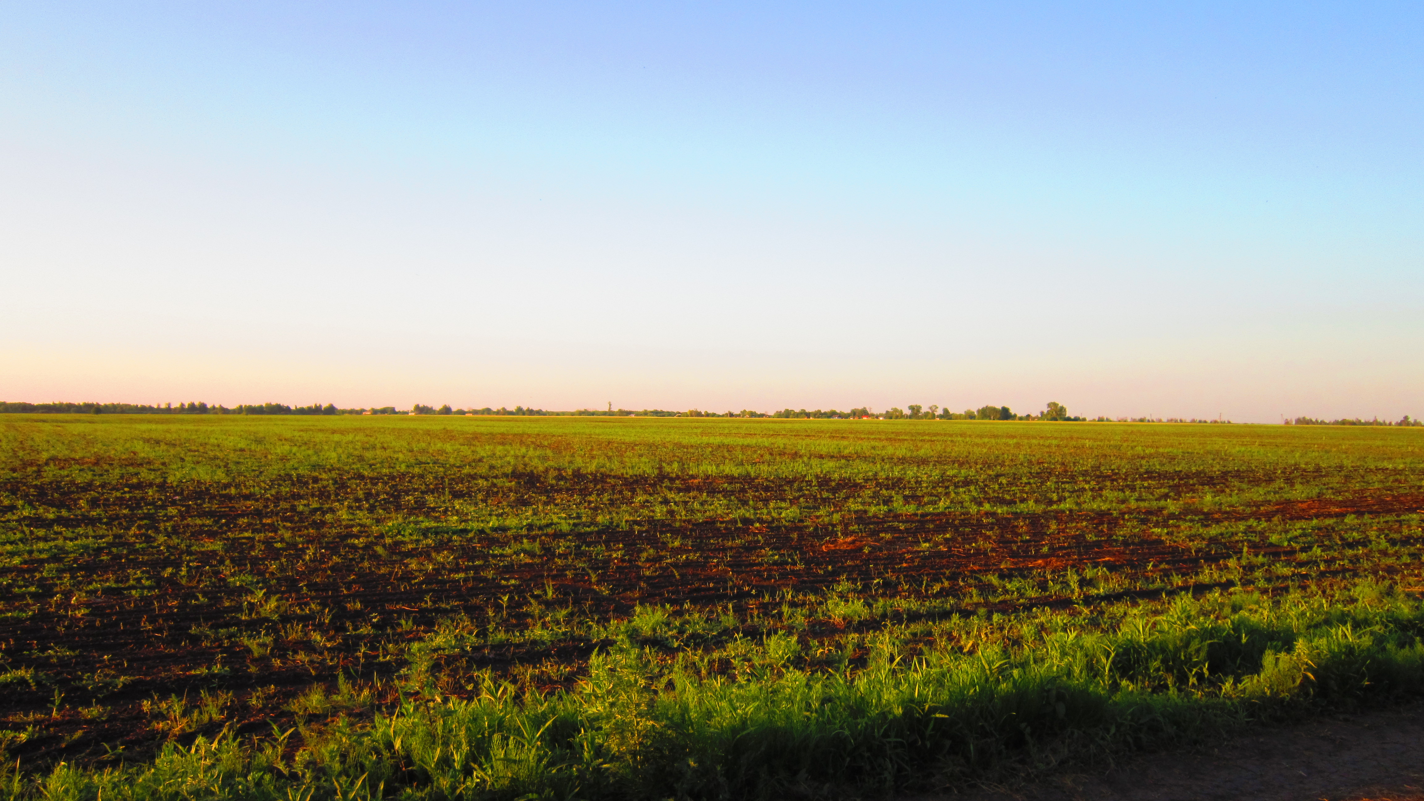 Black Earth Field, Pervomaysky District, Tambov Oblast, Russia